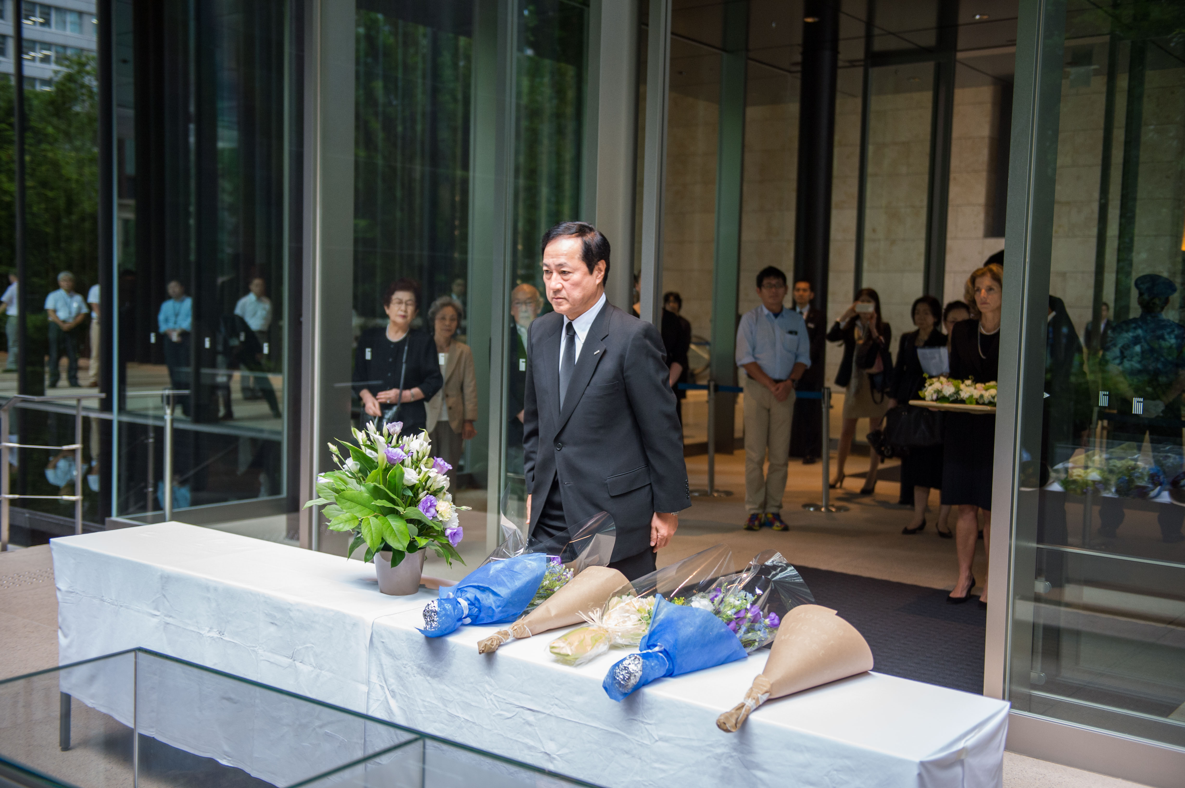 Yasuhiro Satō, President of the Mizuho Financial Group, Inc., prayed for the victims of the September 11 attacks in front of the memorial at the Ōtemachi no Mori, Otemachi Tower in Chiyoda Ward, Tōkyō Metropolis on September 10, 2014.